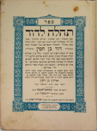 Poems and songs by David Ben Hassin.